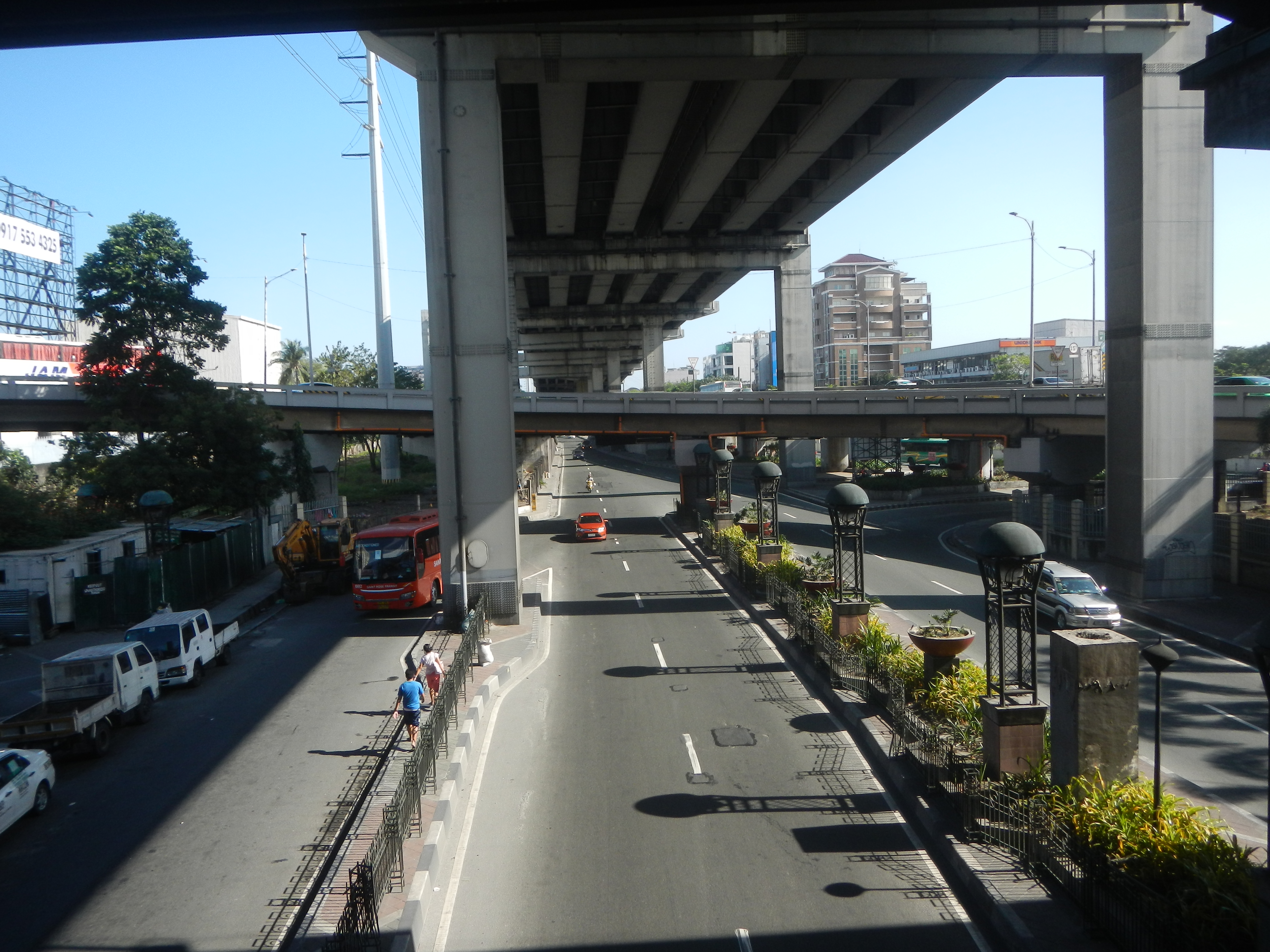 Makati Makati Central Business occupies List of barangays of Metro Manila, Legislative districts of Makati Barangays San Lorenzo 14°33'4"N 121°1'13"E San Lorenzo Village, Makati City San Lorenzo 14°33'4"N 121°1'13"E beside Magallanes 14°32'8"N 121°1'6"E Bangkal 14°32'37"N 121°0'48"E Makati City Chino Roces Avenue Pasong Tamo Box Culvert KM Sta.6+542 15 metric tons load limit along Chino Roces Avenue (Pasong Tamo), Bangkal, Makati City EDSA-Magallanes Tunnel P 12.0 million cost Rehabilitation from Magallanes Interchange EDSA railway station Magallanes MRT Station to Pasong Tamo Extension, Makati City corner South Luzon Expressway Metro Manila Skyway corner EDSA (road) Epifanio de los Santos Avenue (EDSA, Makati City - Pasay City section) Barangay 183 (Pasay) 14°30'57"N 121°0'58"E Metro Manila Skyway Mabuhay Pasay City Nichols Field Road Interchange Bridge Sta. Limit -11+053 Load limit 20 metric tons and Sta. Limit -11+394 Load limit 20 metric tons Lawton Avenue Barangay Western Bicutan, Taguig City (Note: Judge Florentino Floro, the owner, to repeat, Donor Florentino Floro of all these photos hereby donate gratuitously, freely and unconditionally all these photos to and for Wikimedia Commons, exclusively, for public use of the public domain, and again without any condition whatsoever).